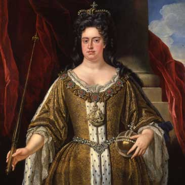 Anne of Great Britain (1665-1714, r. 1702-1714)